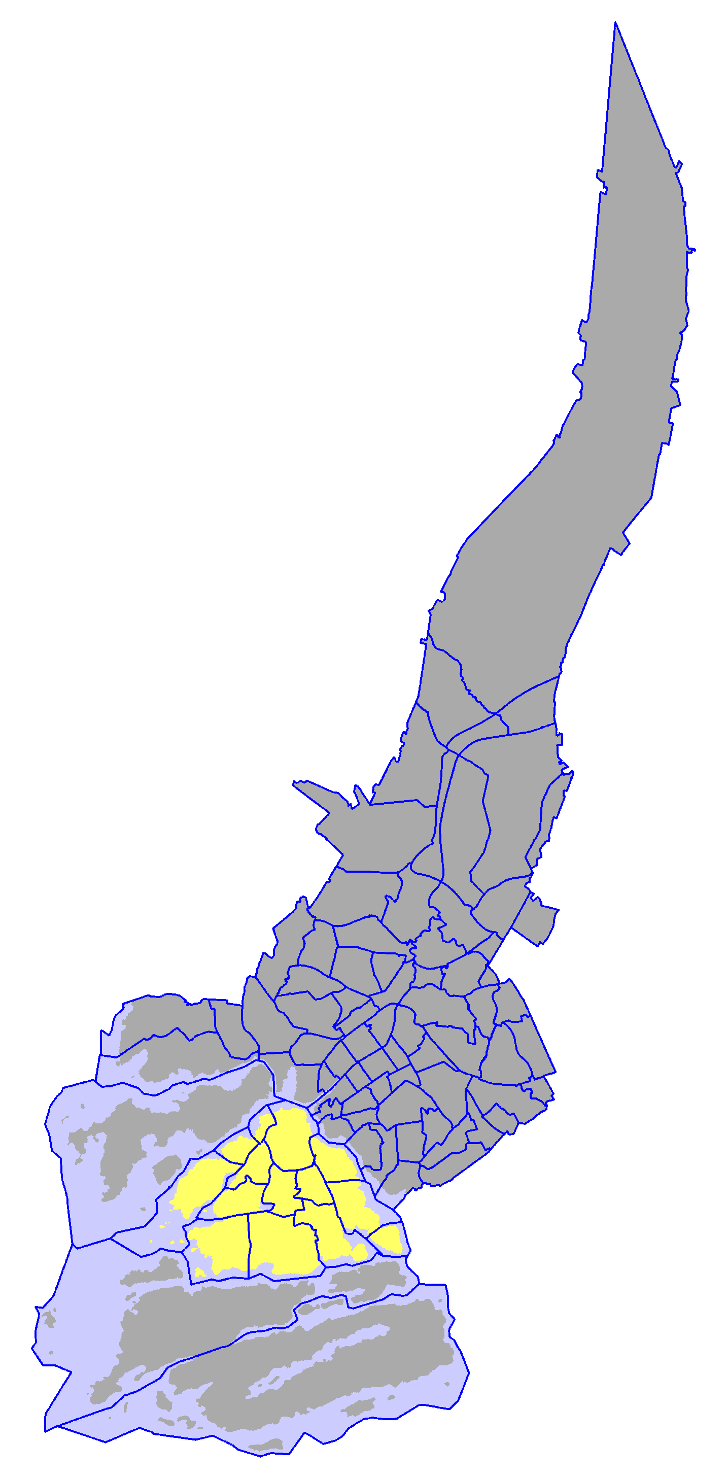 Island of Hirvensalo, in Turku